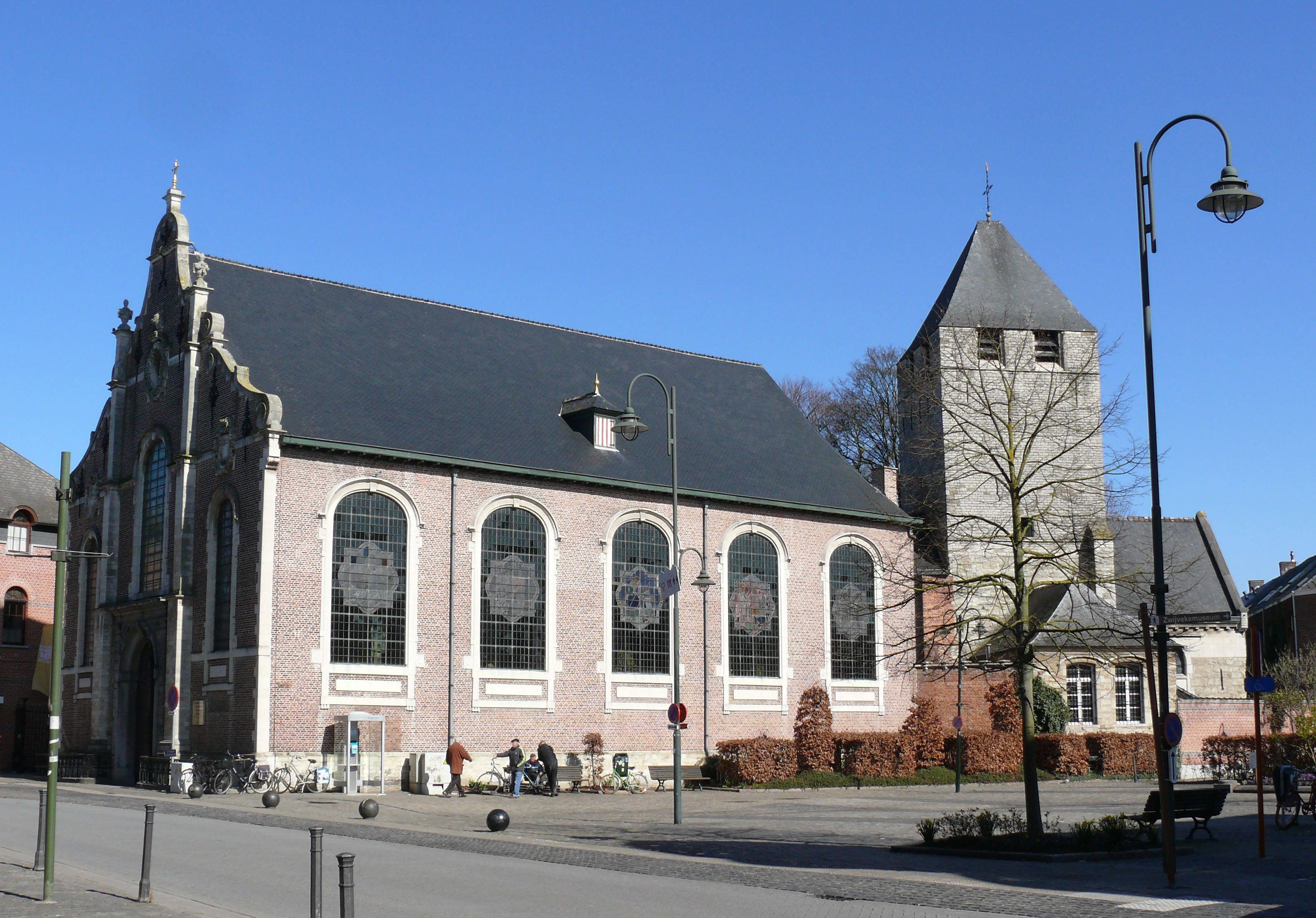 The Church of St Egidius intra muros (St Giles within the walls) in Dendermonde. The oldest parts of the church date back to the 13yh century, the facade is early twentieth century neo-baroque.